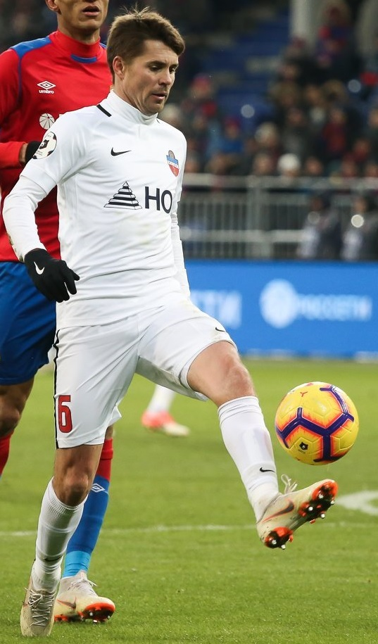 Dmitri Torbinski with FC Yenisey Krasnoyarsk in a game against PFC CSKA Moscow.